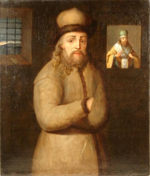 Arsenius (Matseyevich)